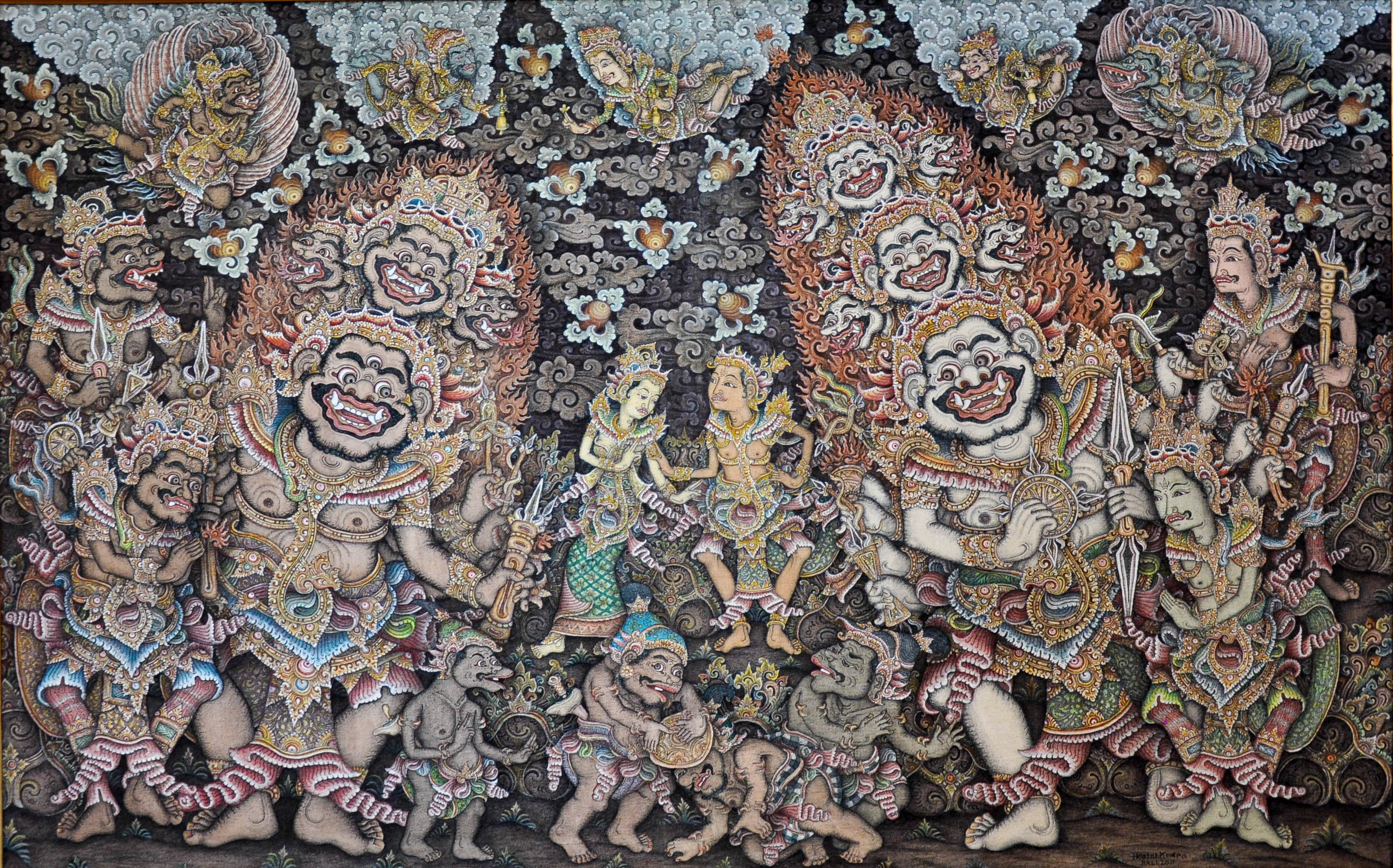 The Puri Lukisan Museum (Indonesian: Museum Puri Lukisan) is the oldest art museum in Bali which specialize in modern traditional Balinese paintings and wood carvings. The museum is located in Ubud, Bali, Indonesia. It is home to the finest collection of modern traditional Balinese painting and wood carving on the island, spanning from the pre-Independence war (1930–1945) to the post-Independence war (1945 – present) era. The collection includes important examples of all of the artistic styles in Bali including the Sanur, Batuan, Ubud, Young Artist and Keliki schools